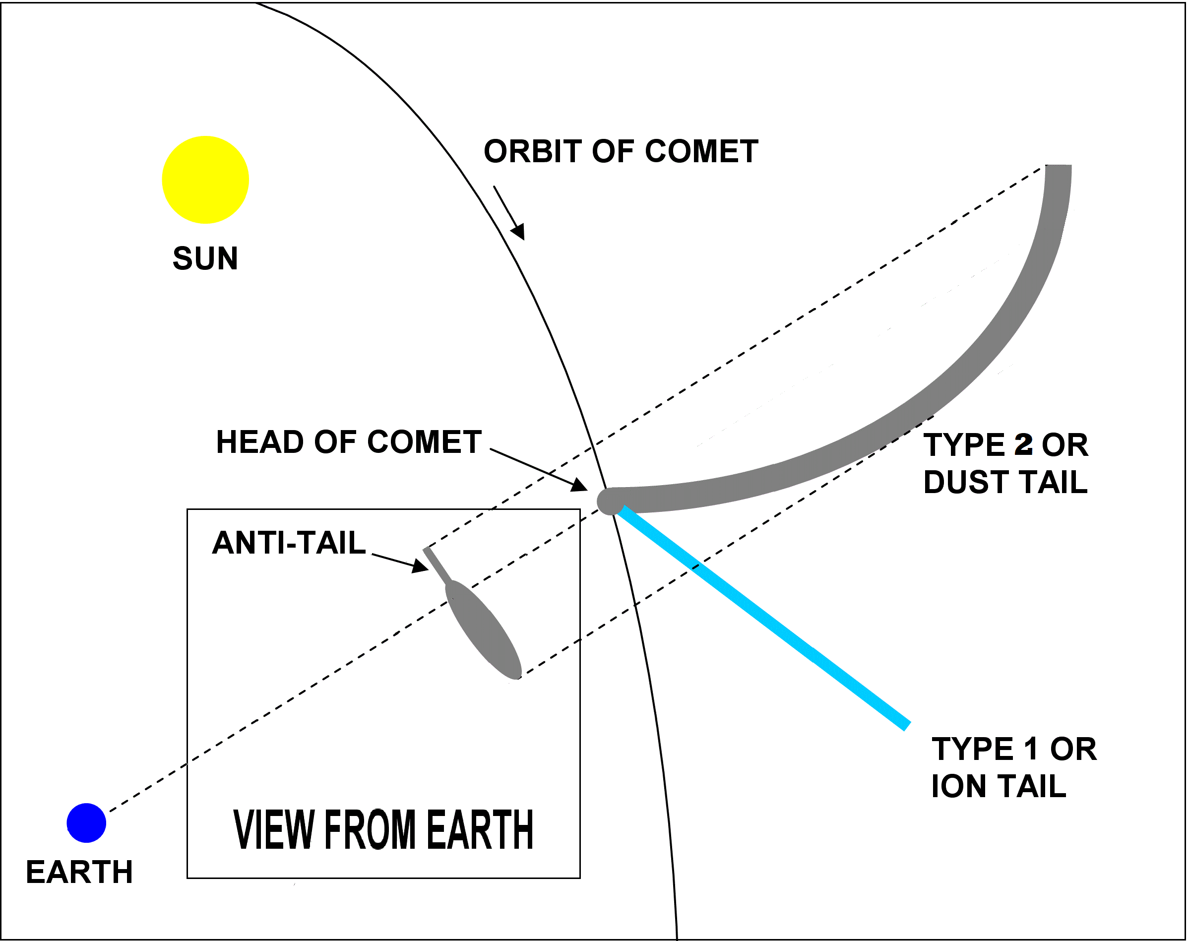 Showing how a Comet may appear to exhibit a short tail pointing in the opposite direction to its type II or dust tail as viewed from Earth i.e. an anti-tail